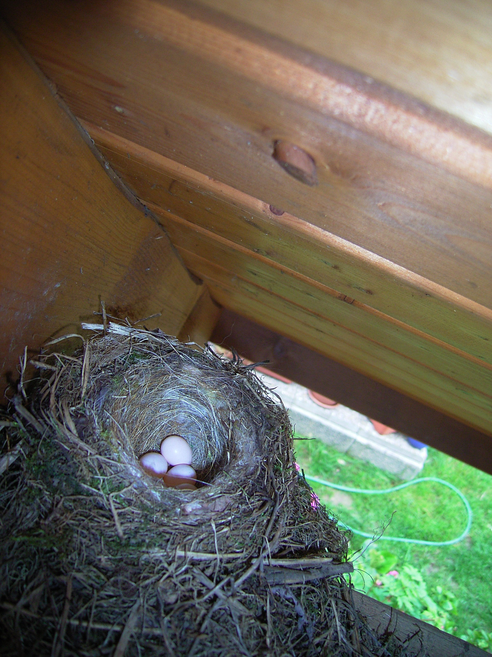 The Nest with the Eggs See also overall description below